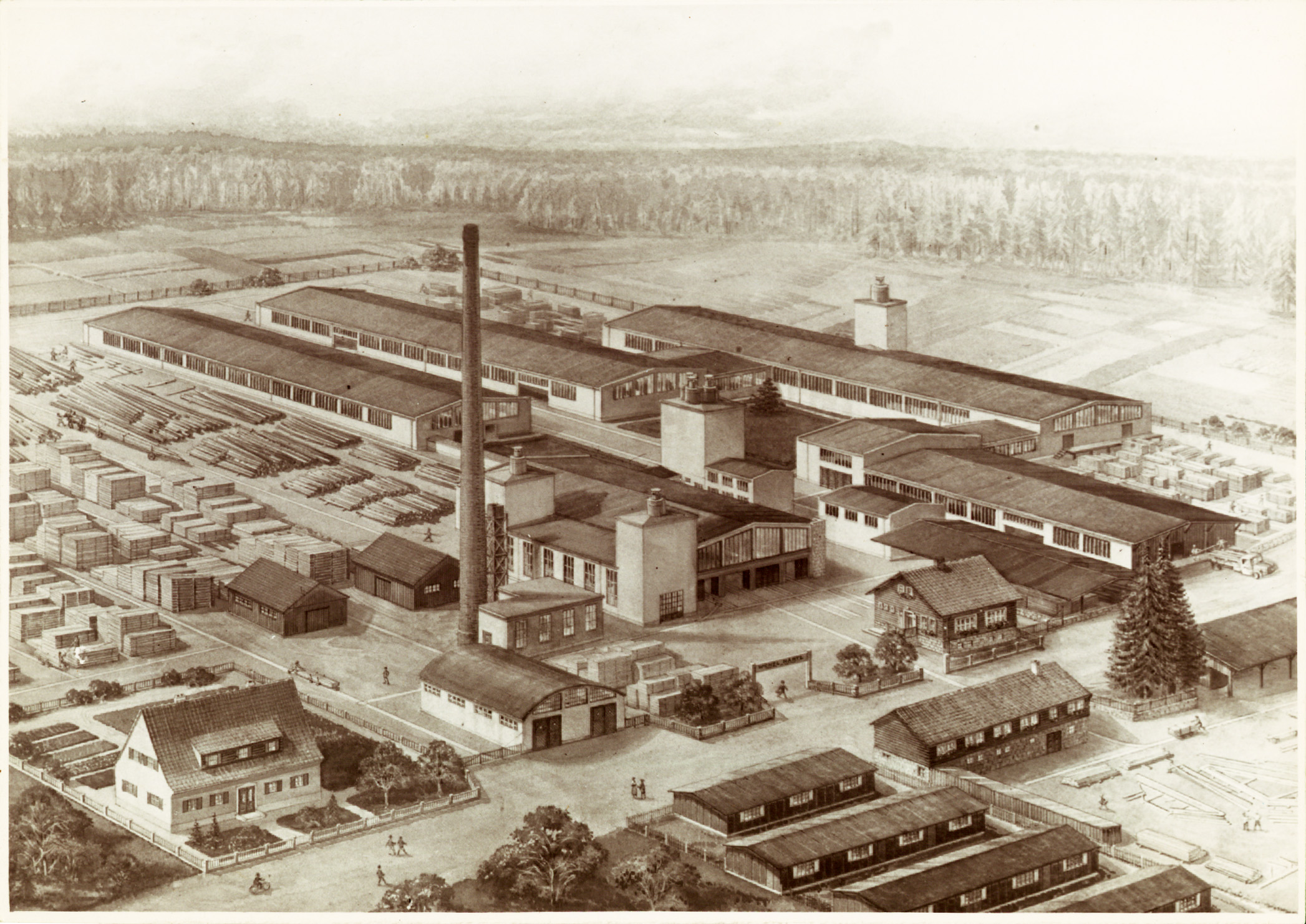 HARTL HAUS factory premises since 1924 in Echsenbach / Lower Austria